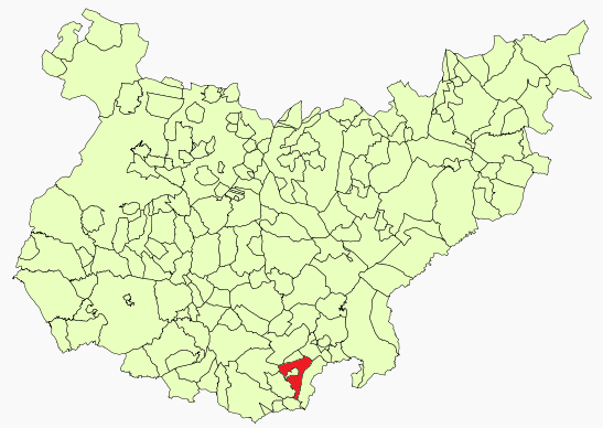 Reina